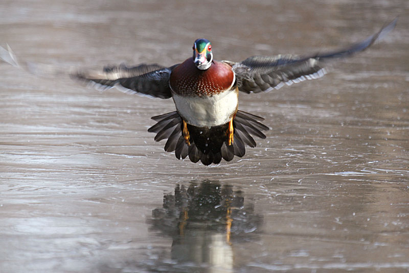 A Wood Duck (Aix sponsa) taking off of ice. Blair Pond, Belmont, Massachusetts.